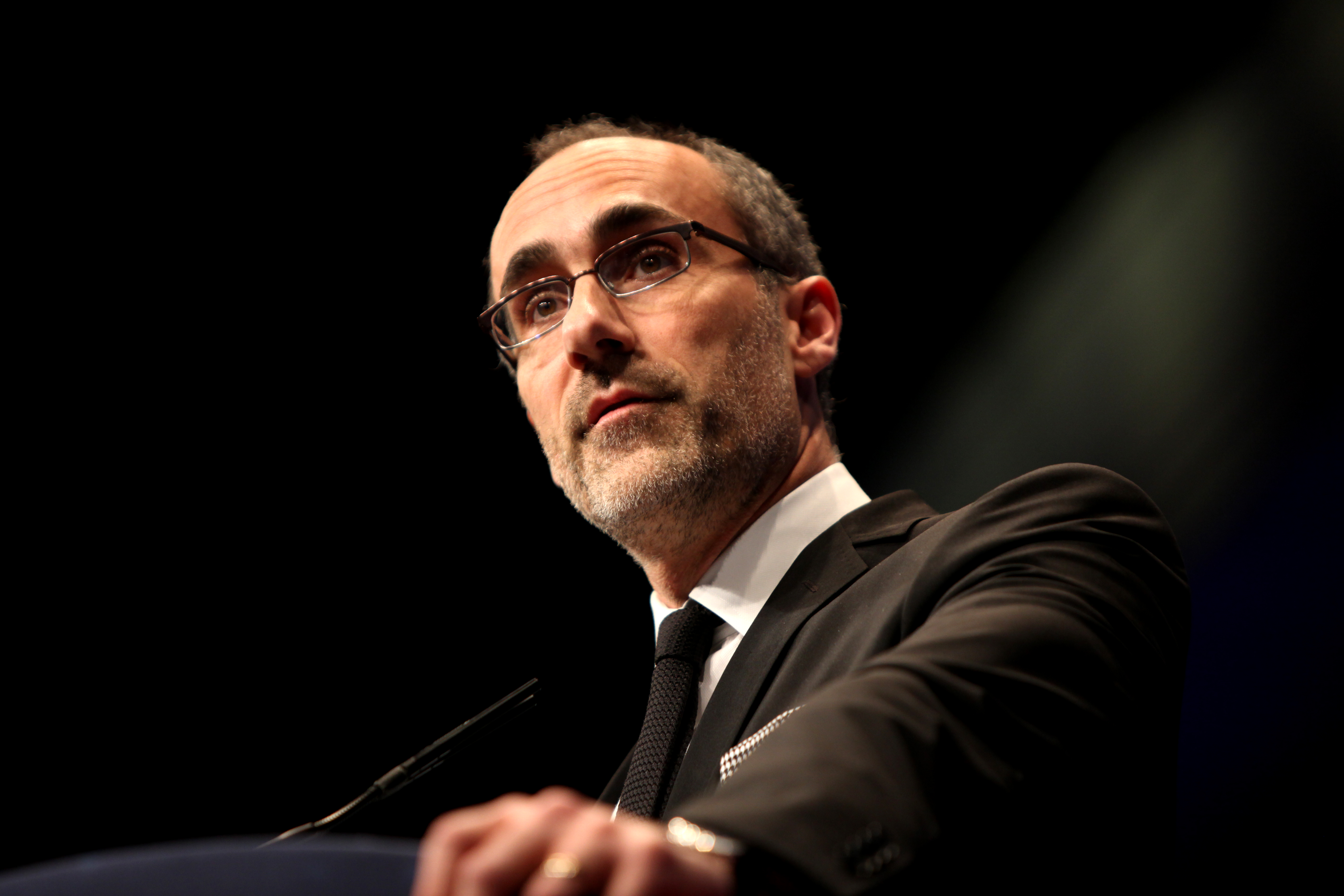 Arthur Brooks speaking at the 2012 CPAC in Washington, D.C.